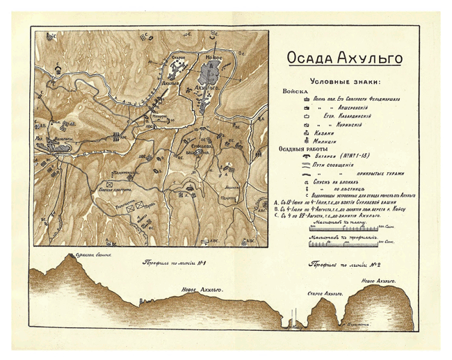 This is map of Battle of Ahulgo took place in 1839. It was important battle of Caucasian War betwean Russian army and Imam Shamil.